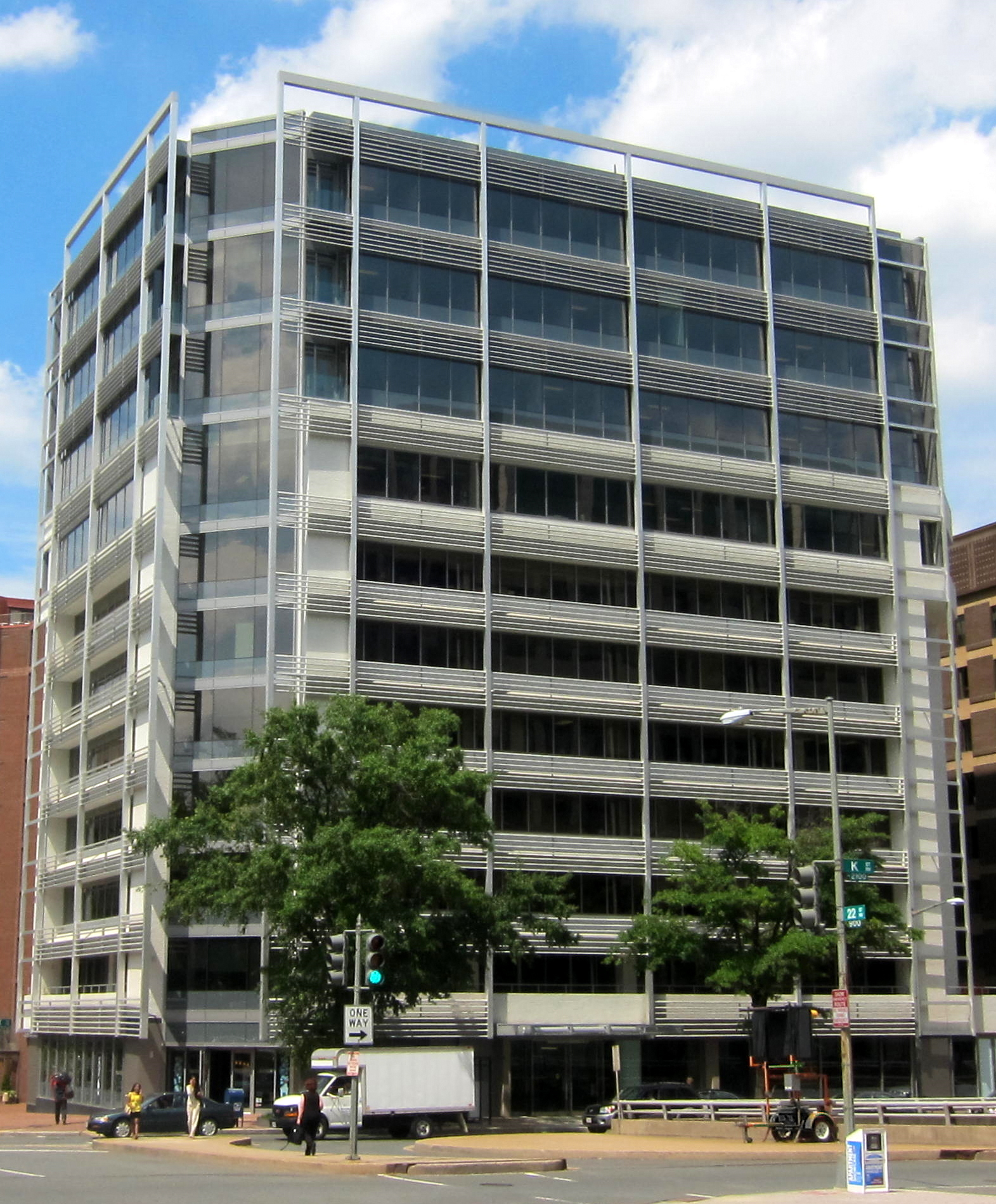 The Washington Park Building located at 2175 K Street, N.W., in the West End neighborhood of Washington, D.C. The postmodern high-rise was built in 1982, but underwent an extensive renovation in 2010. Tenants include the European Union Delegation, Food and Agriculture Organization (Liaison Office for North America), U.S. Chemical Safety and Hazard Investigation Board, Washington Institute of Thoracic and Cardiovascular Surgery, and U.S. National Committee for World Food Day.